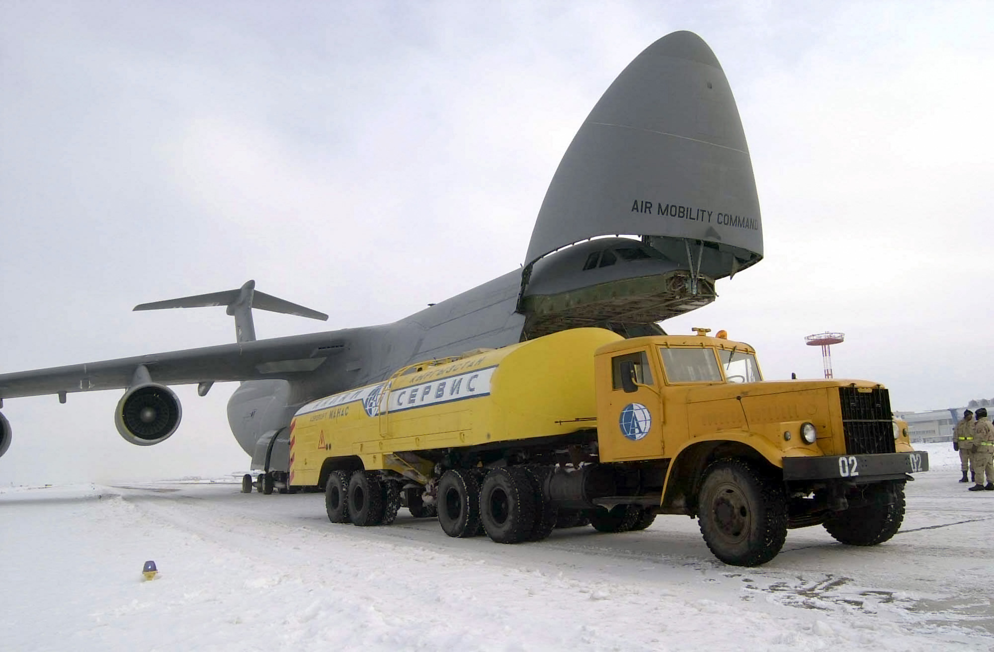 A C-5 Galaxy cargo plane re-fuels at Manas International Airport, Bishkek, Kyrgyzstan on arrival from Ramstein Air Base, Germany, in support of Operation Enduring Freedom. The tank truck is a KrAZ-258.